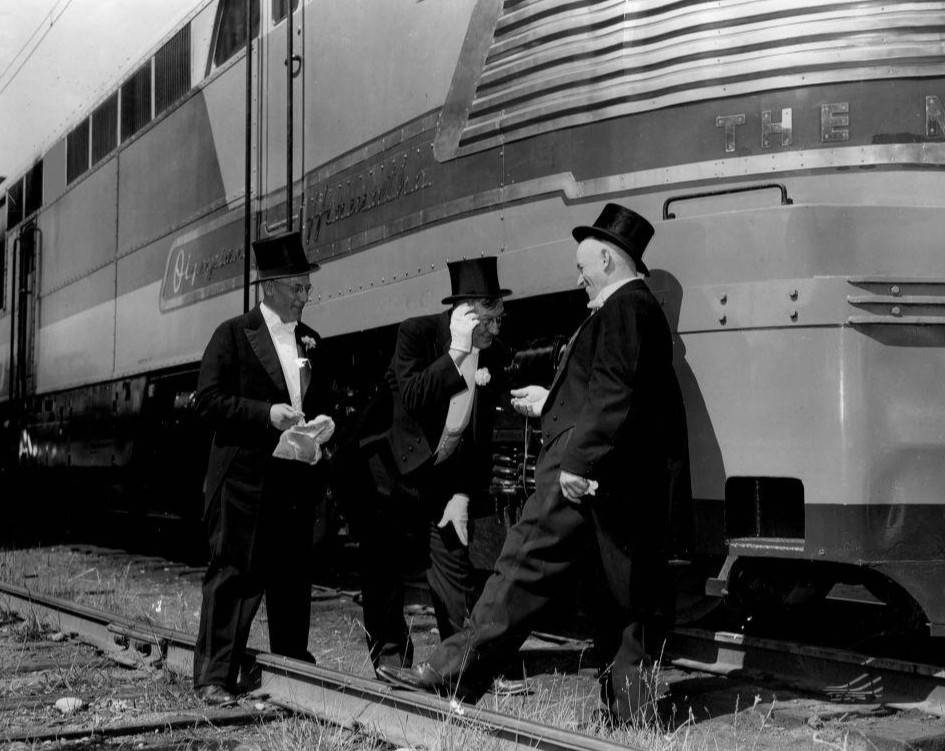 Photo of the inaugural run of the Milwaukee Road streamliner the Olympian Hiawatha from Seattle in 1947. The conductor, engineer and fireman were in formal attire for the occasion and posed for the photo.